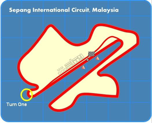 Sepang International Circuit, Turn One highlighted.